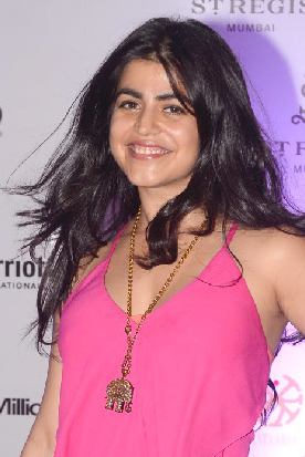 Shenaz Treasuryvala graces the Polo match, Mar 18, 2018